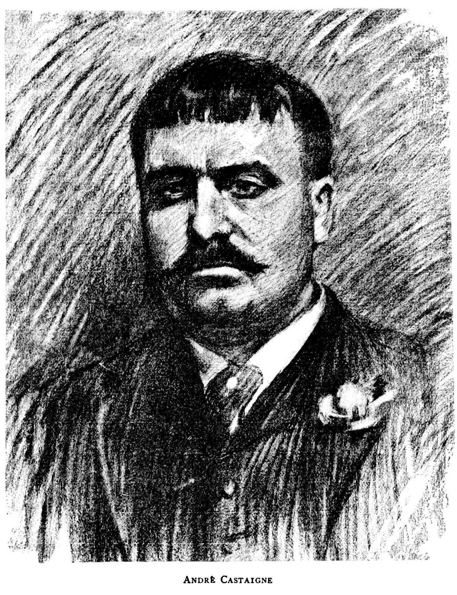 Jean André Castaigne (21 January 1861, Angoulême, Charente[1] – 1929, Paris) was a French artist and engraver